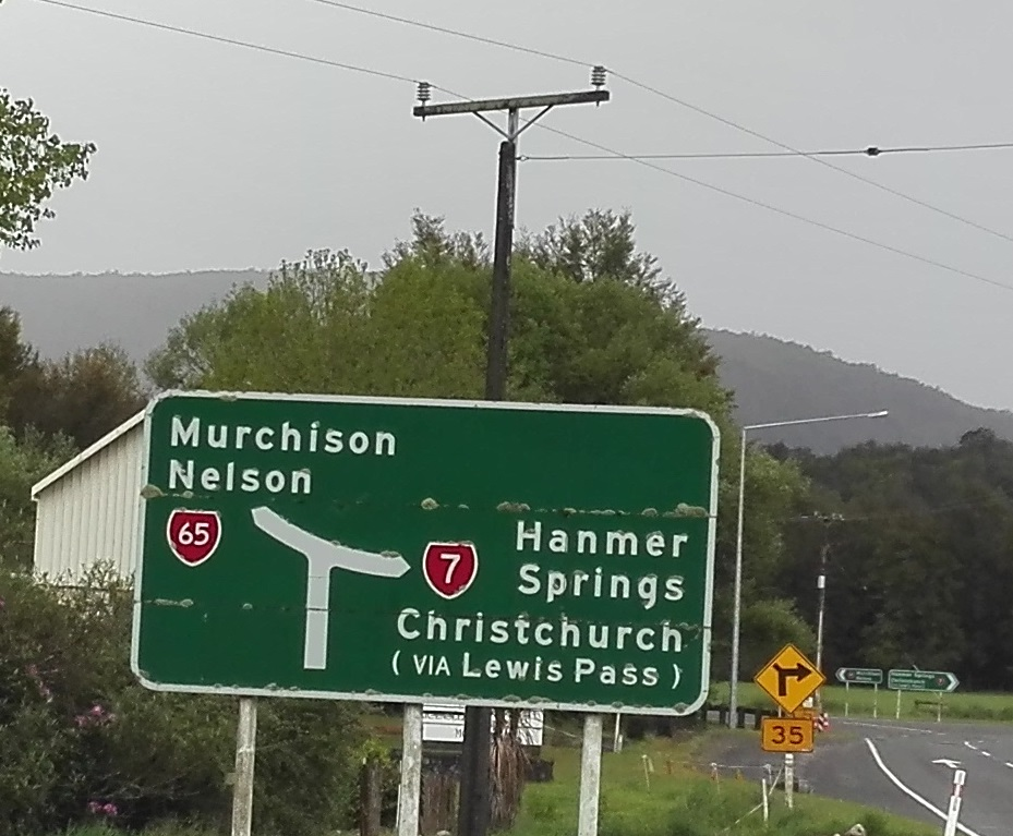 The is the road sign as it appears when approaching Springs Junction from the West Coast on State Highway 7.